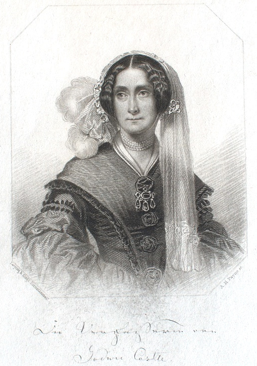 Henriette Paalzow (1788-1847), German writer